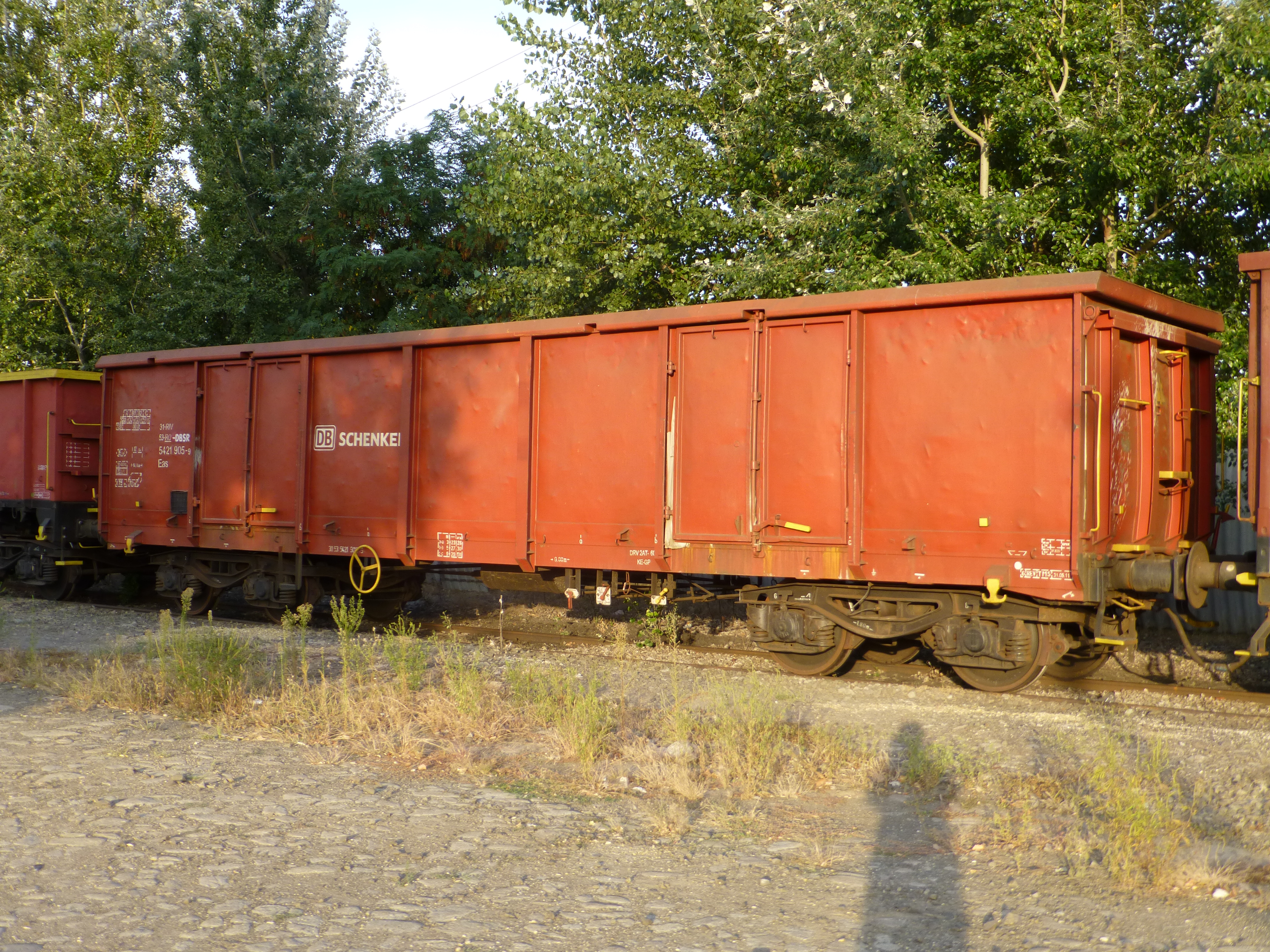 Type Eas rail cargo wagon of the DB-Schenker Rail Romania in Szeged-Rókus, Hungary.Key for Eas letter group: E = Open top railcar with high sidewalls a = with four axes s = In circulation according to the European Technical Specification for Interoperability, appendix B, standard s